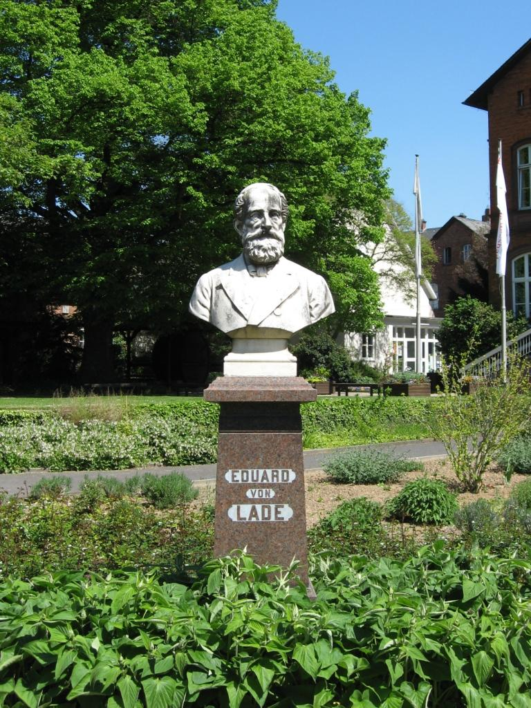 Memorial of Heinrich Eduard von Lade in the Geisenheim Grape Breeding Institute